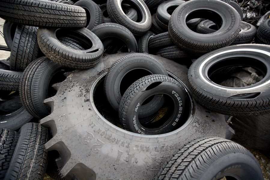 image used in co-processing wiki